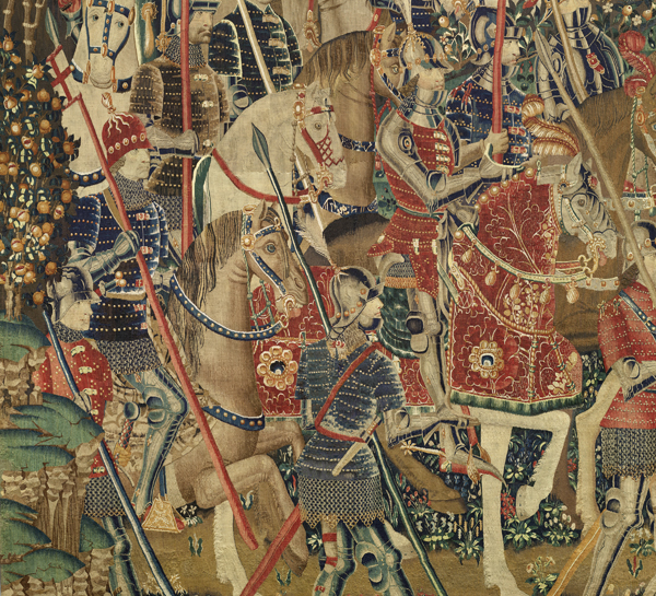 Museo Parroquial de Tapices de Pastrana; Pastrana; Castilla-La Mancha, Guadalajara; Spain; Flemish tapestry; Serie Conquistas de Alfonso V de Portugal; Tournai, h. 1472-1480, Lana y seda; Doornik, circa 1472-1480, Wol en zijde; ; 368x1108cm; Cultural heritage|Tapestry; Europe|Spain|Pastrana; Passchier Grenier (?); ; Ref.: PM_097563_E_Pastrana